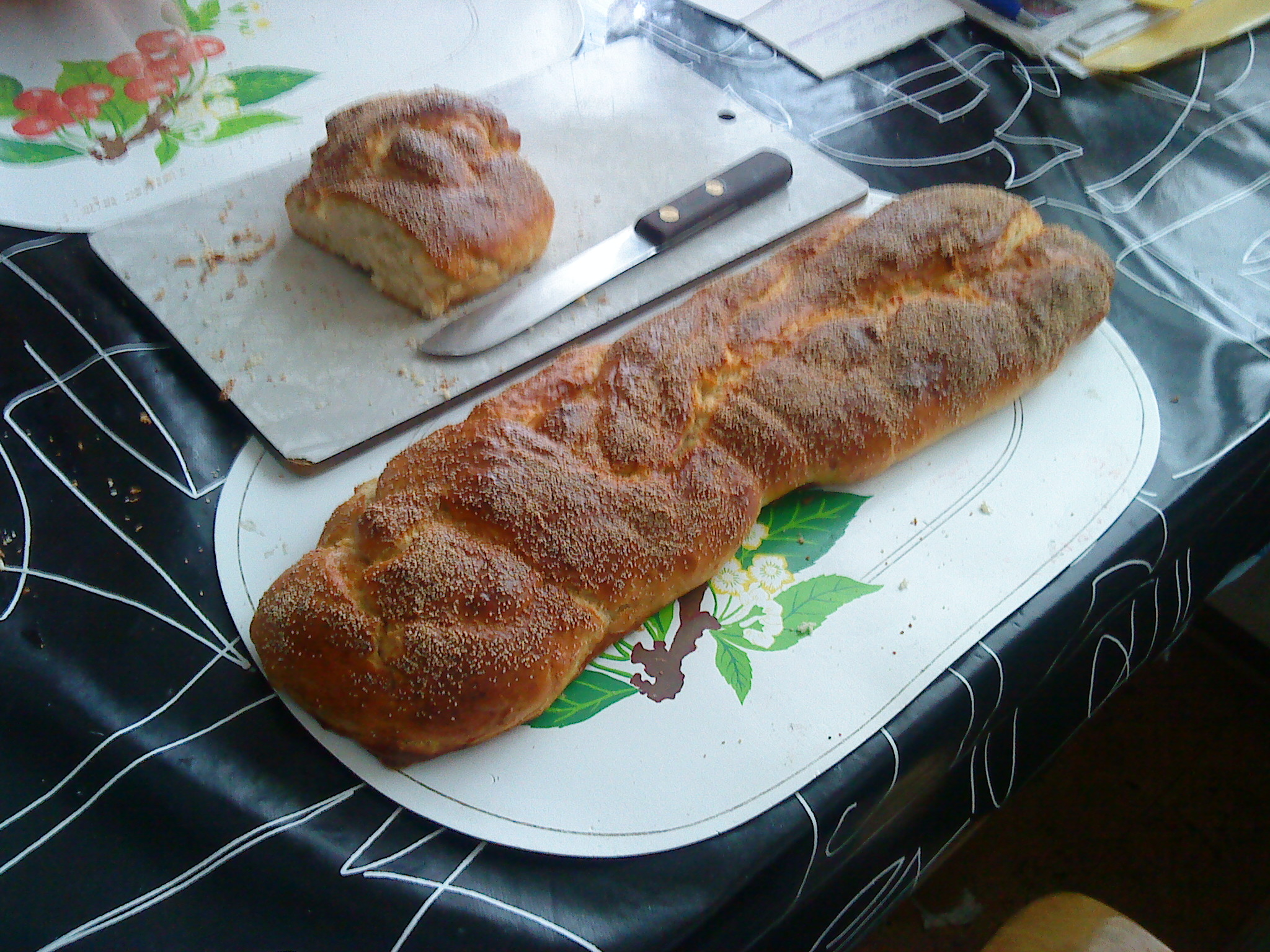 Chalot.